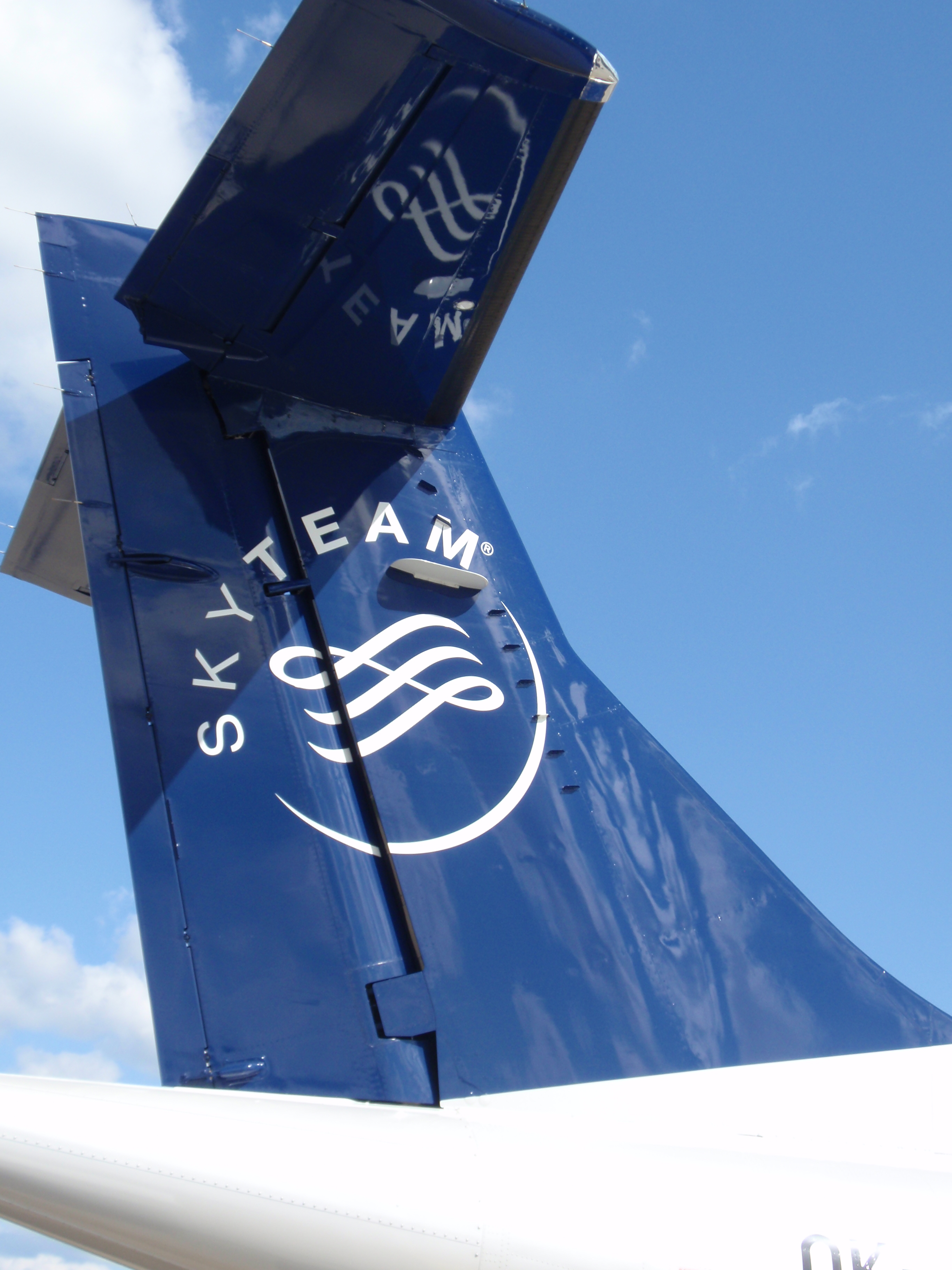 Skyteam (CSA ATR-42 tail)